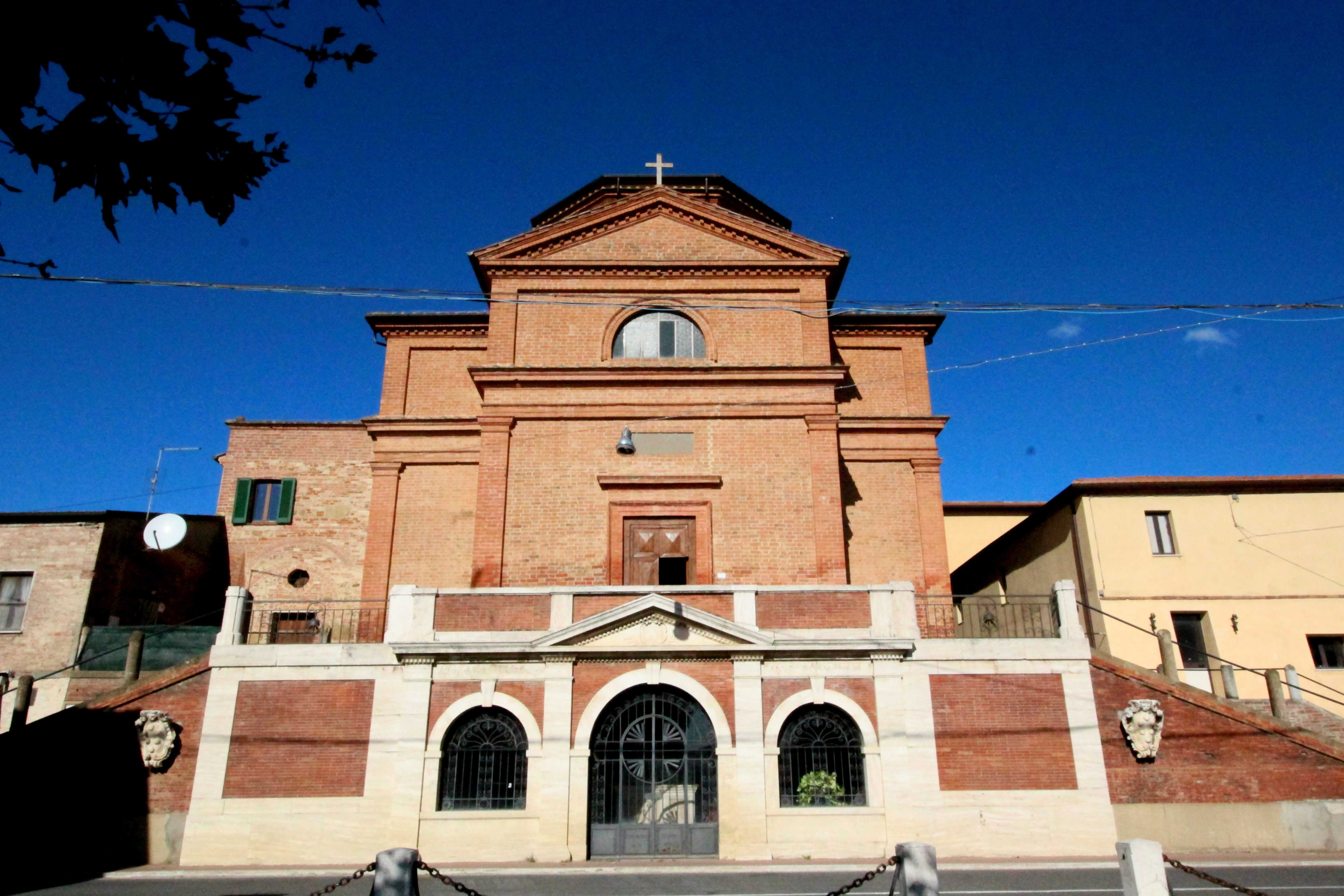 Church San Vittorino, in Acquaviva, hamlet of Montepulciano, Province of Siena, Tuscany, Italy